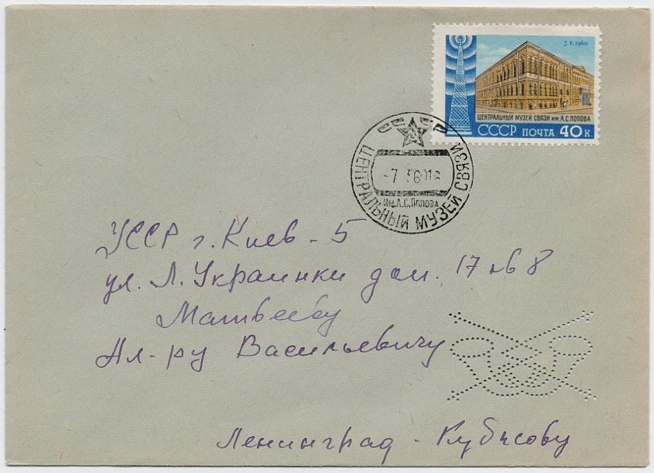 USSR 1960-05-07 cover, sent on first day of issue from Leningrad museum to Kiev. Franked with 40k issue depicting radio tower and Popov Central Museum of Communications in Leningrad and the Radio Day.